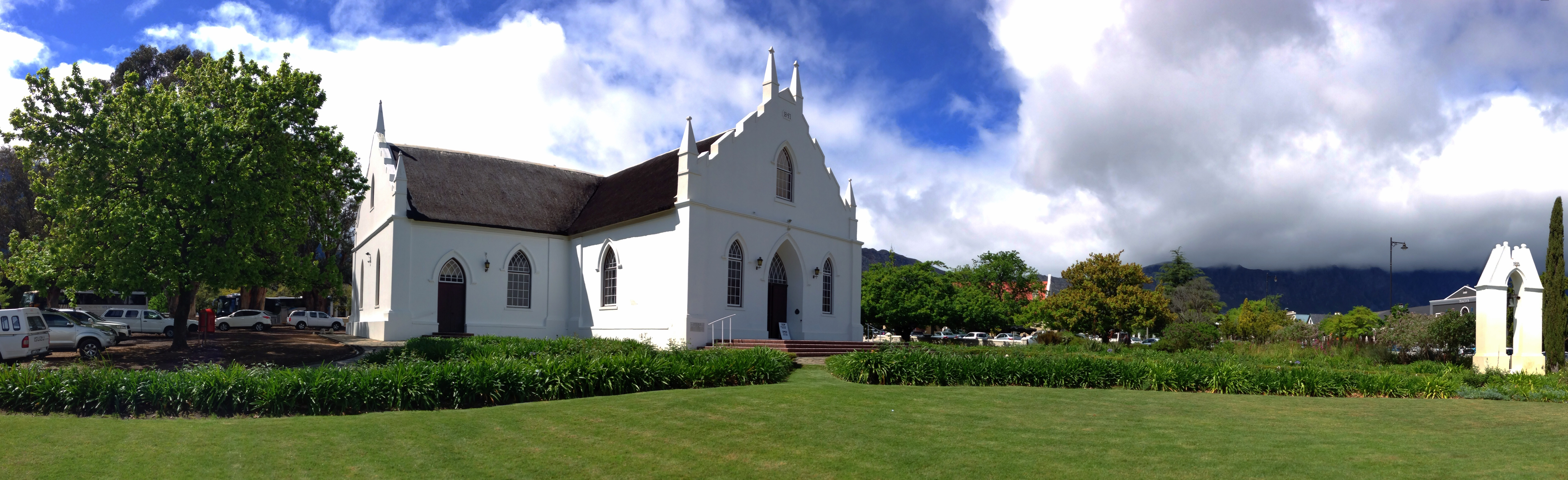 A panoramic view of the Dutch Reformed Church in Franschhoek. The church bell is visible on the far right of the picture. This media shows a South African Protected Site with SAHRA file reference 9/2/069/0044.